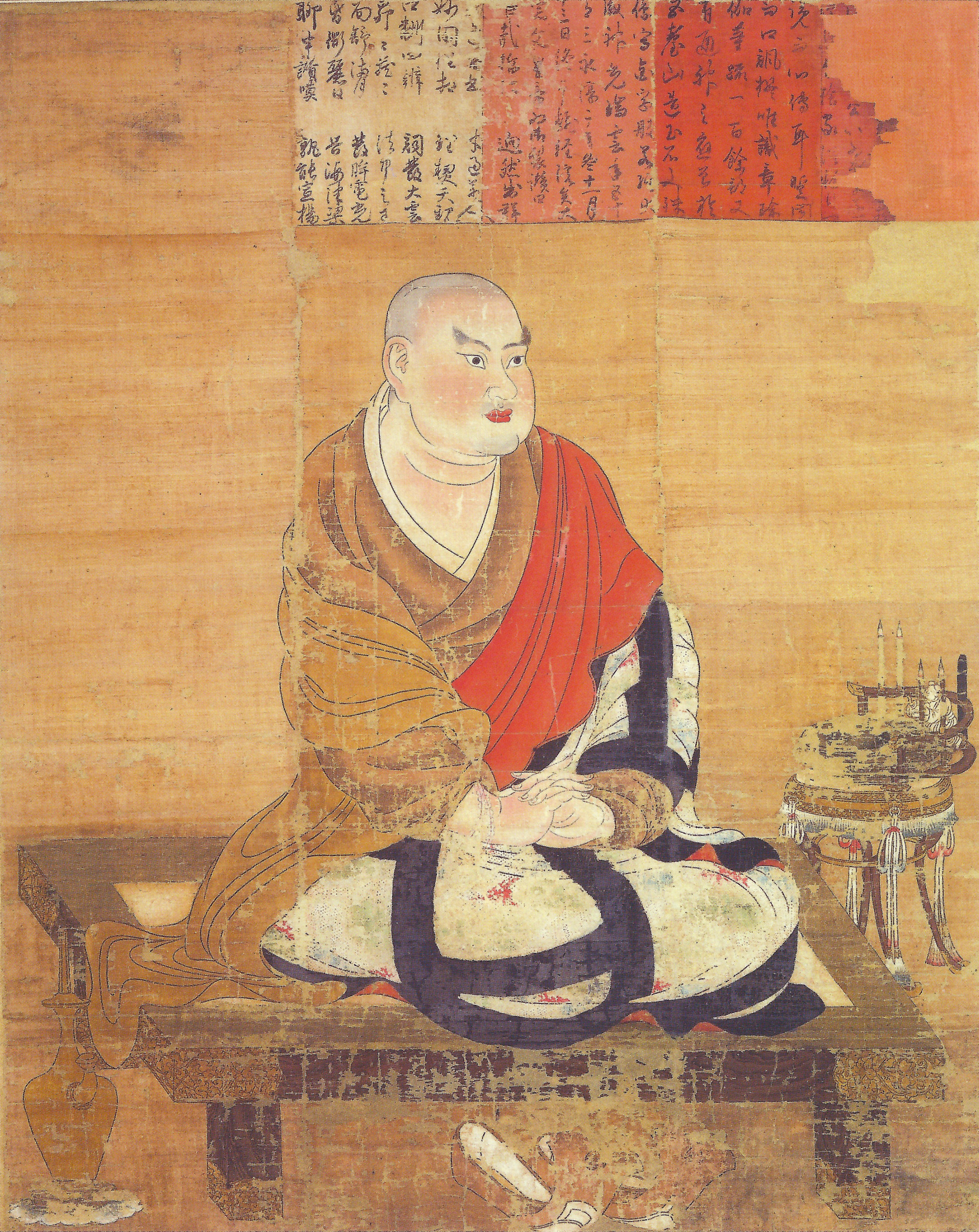 Portrait of the priest Jion Daishi (Kuiji) (絹本著色慈恩大師像, kenpon chakushoku jion daishizō). Hanging scroll, 161.2 cm x 129.2 cm. Color on silk. Located at Yakushi-ji, Nara, Nara.